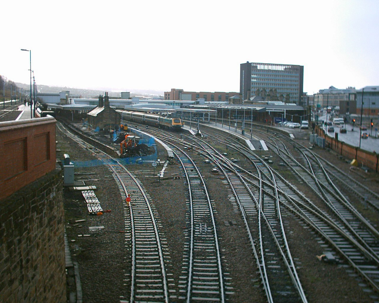 Midland Station, Sheffield in 2005.